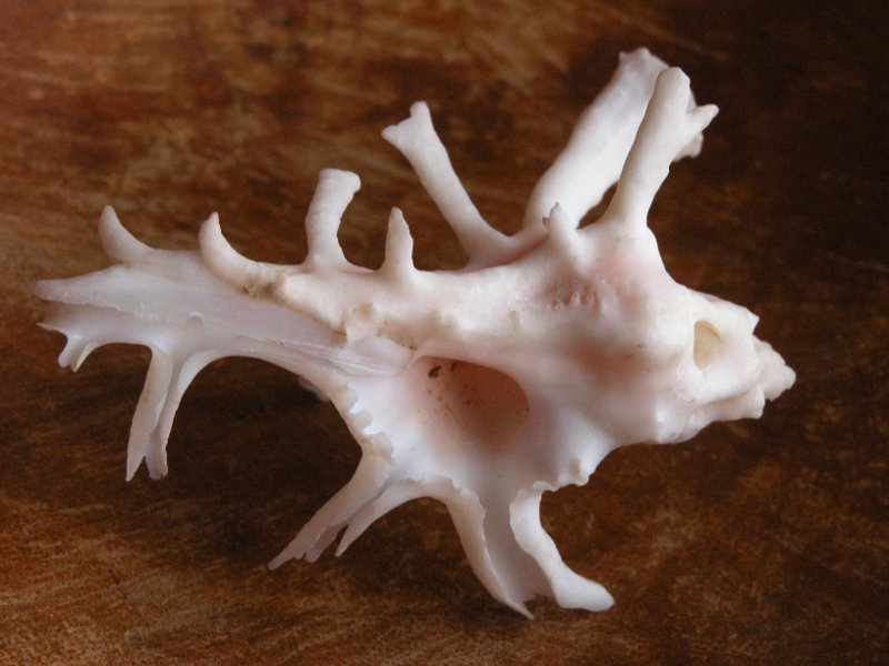 a shell of Homalocantha zamboi.